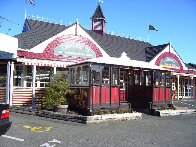 Restored Roslyn Cable Car in Dunedin New Zealand